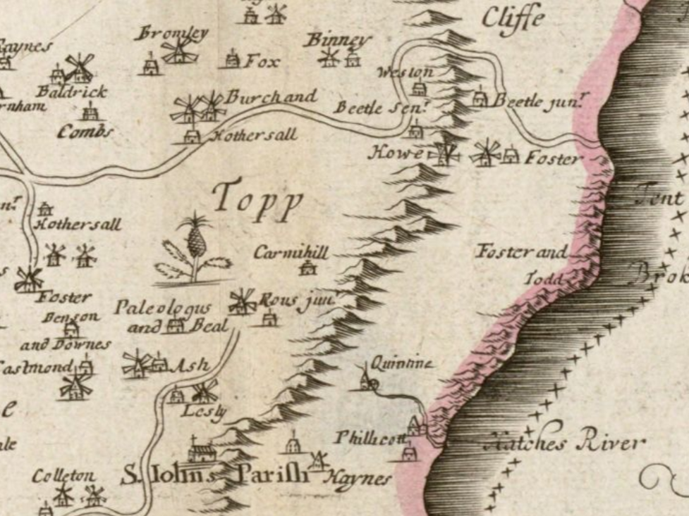 Zoomed in version of this 17th century map of Barbados, to show the "Paleologus and Beal" plantationMore info here